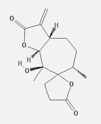 Psilostachyin A, isolate of Ambrosia psilostachya.